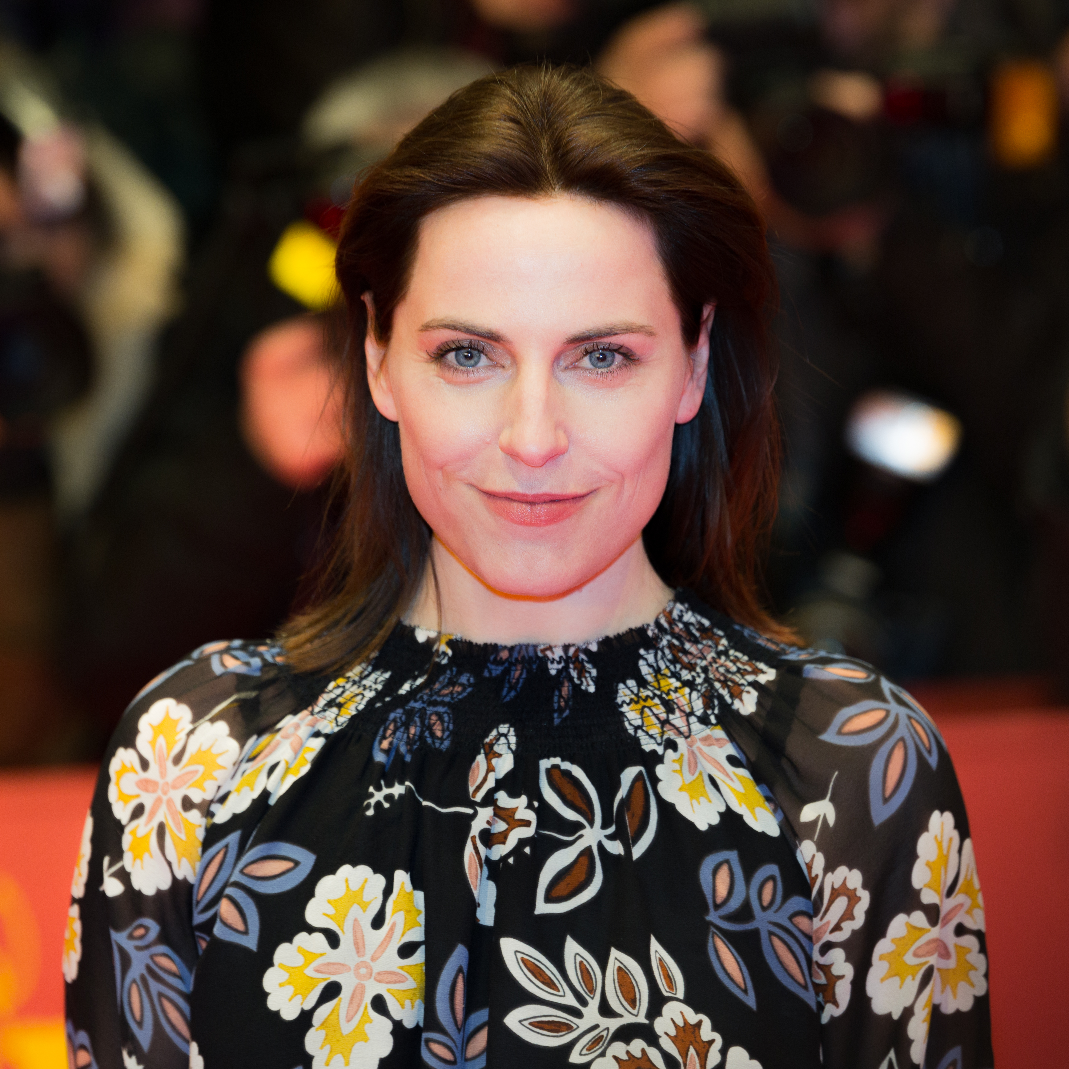 Actress Antje Traue on the red carpet of the Berlinale 2017 opening film